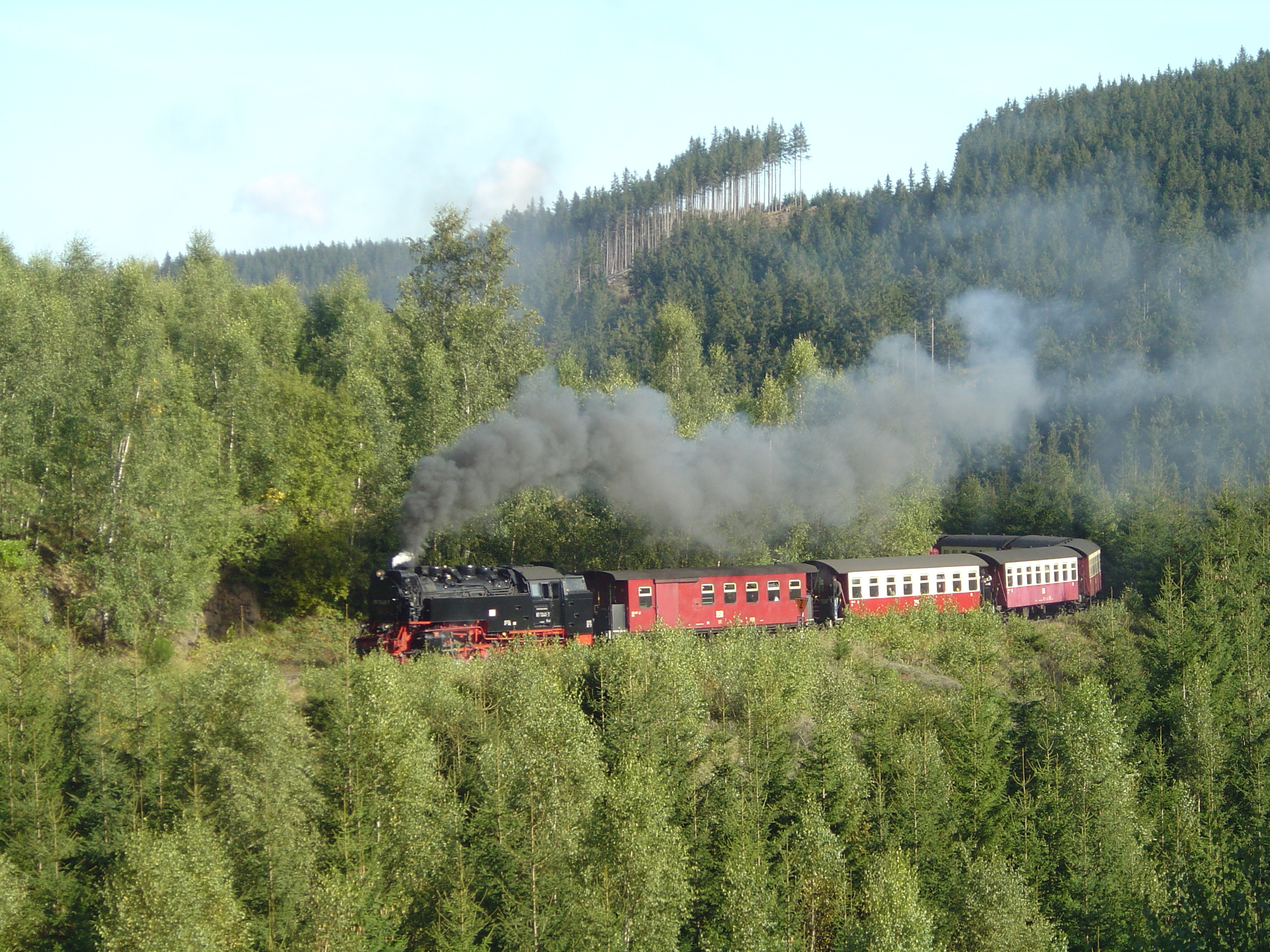 Harzquerbahn train approaching Drei Annen Hohne